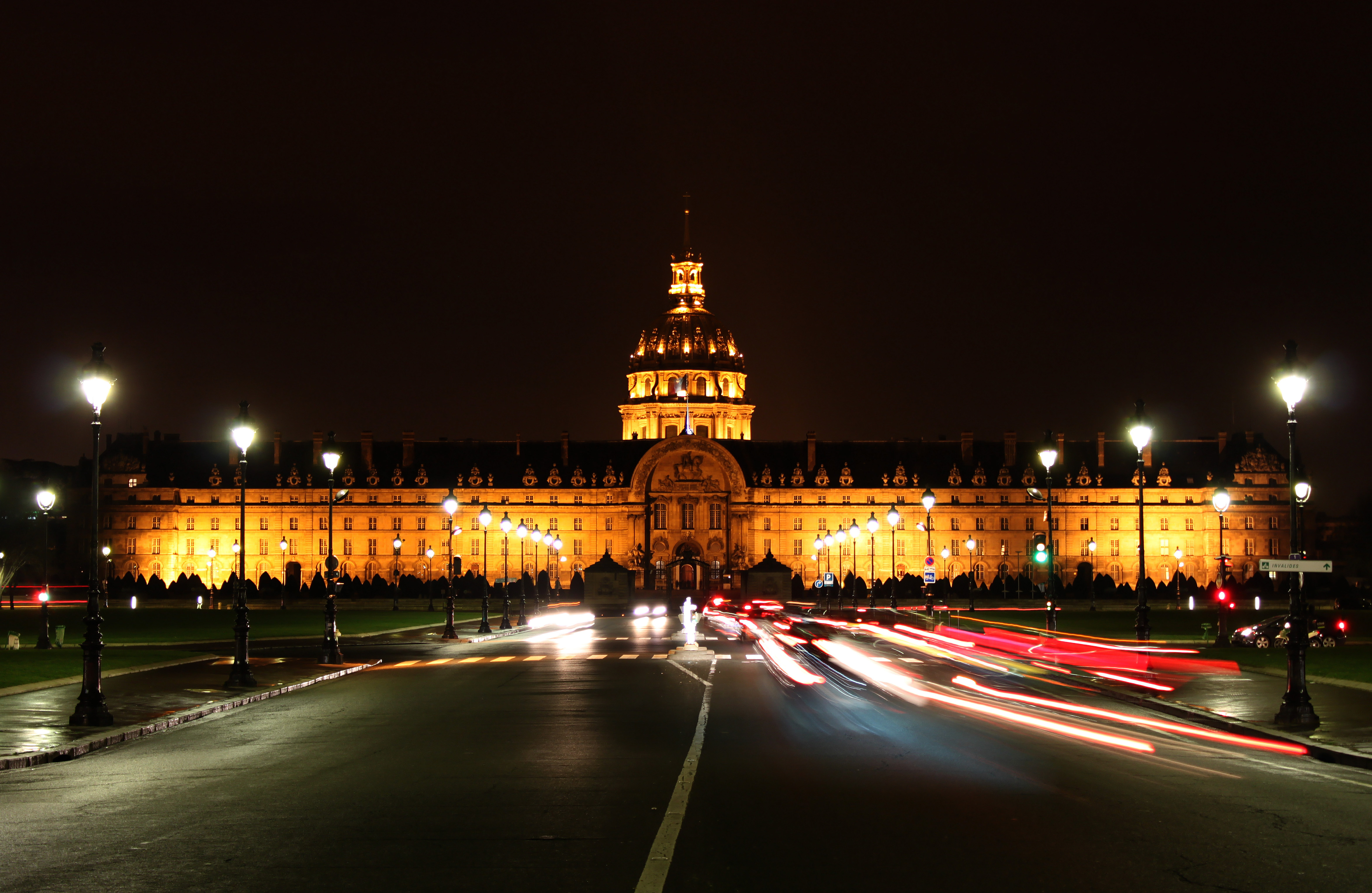 Esplanade des Invalides at night, view from the crossing of the Avenue du Maréchal-Gallieni and the Rue Saint-Dominique, Paris.